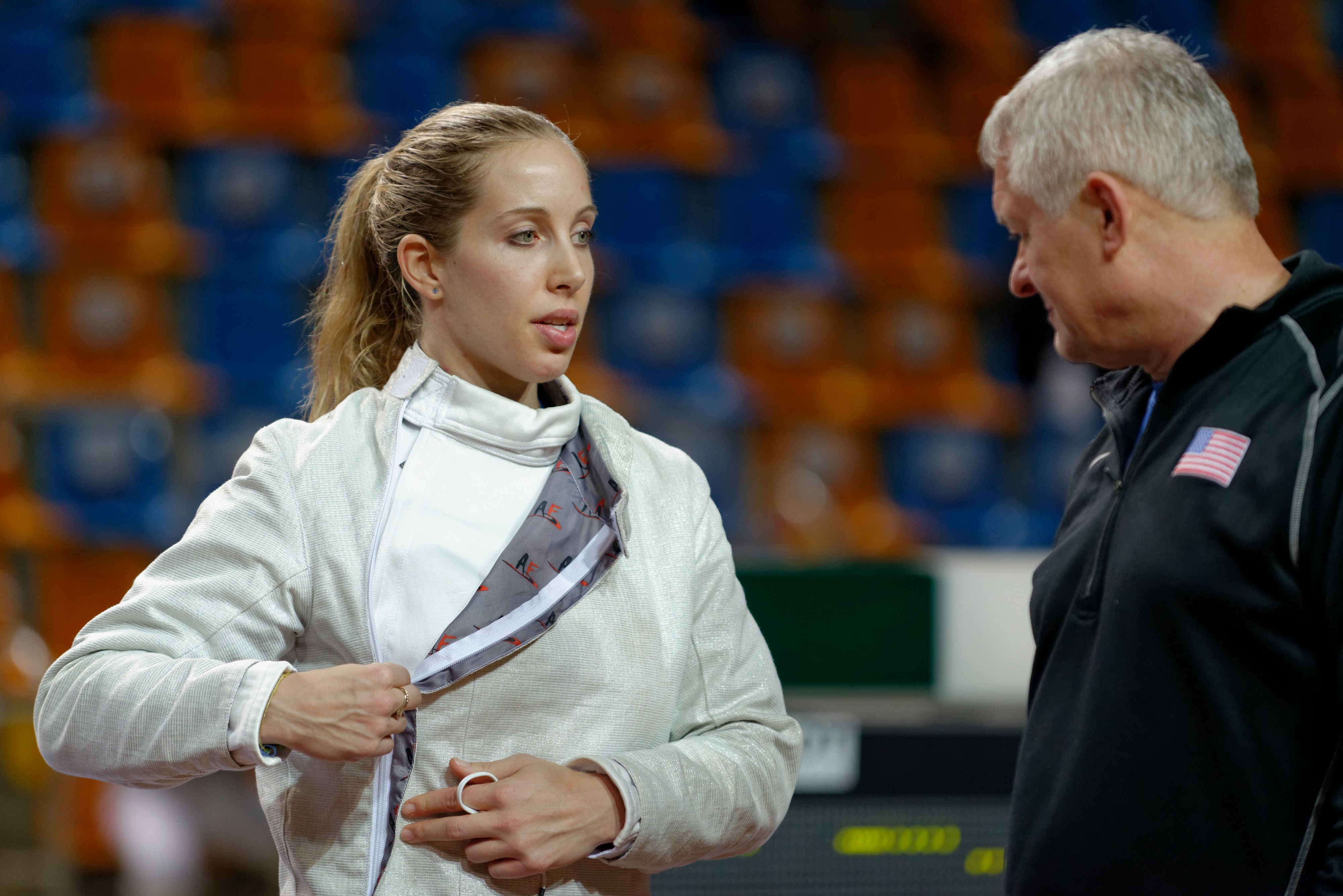 Mariel Zagunis of the United States and coach Ed Korfanty at the Trophée BNP Paribas-Grand Prix FIE, first stage of the women's sabre World Cup, in Orléans.